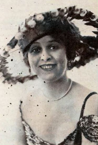 Actress Yvonne Pavis aka Marie Pavis, on page 72 of the August 16, 1919 Exhibitors Herald.